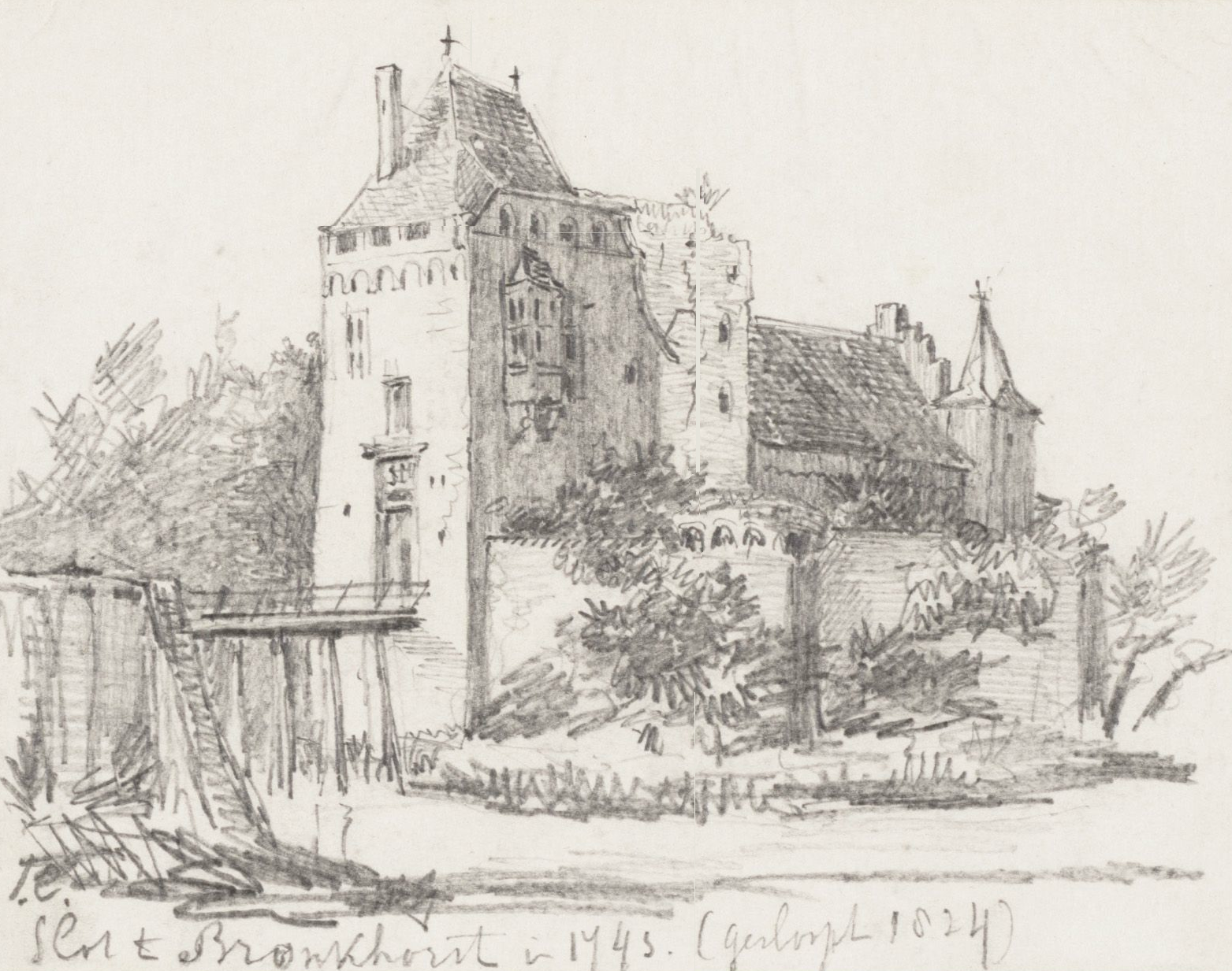 Tower of castle Bronkhorst, seen from the city.